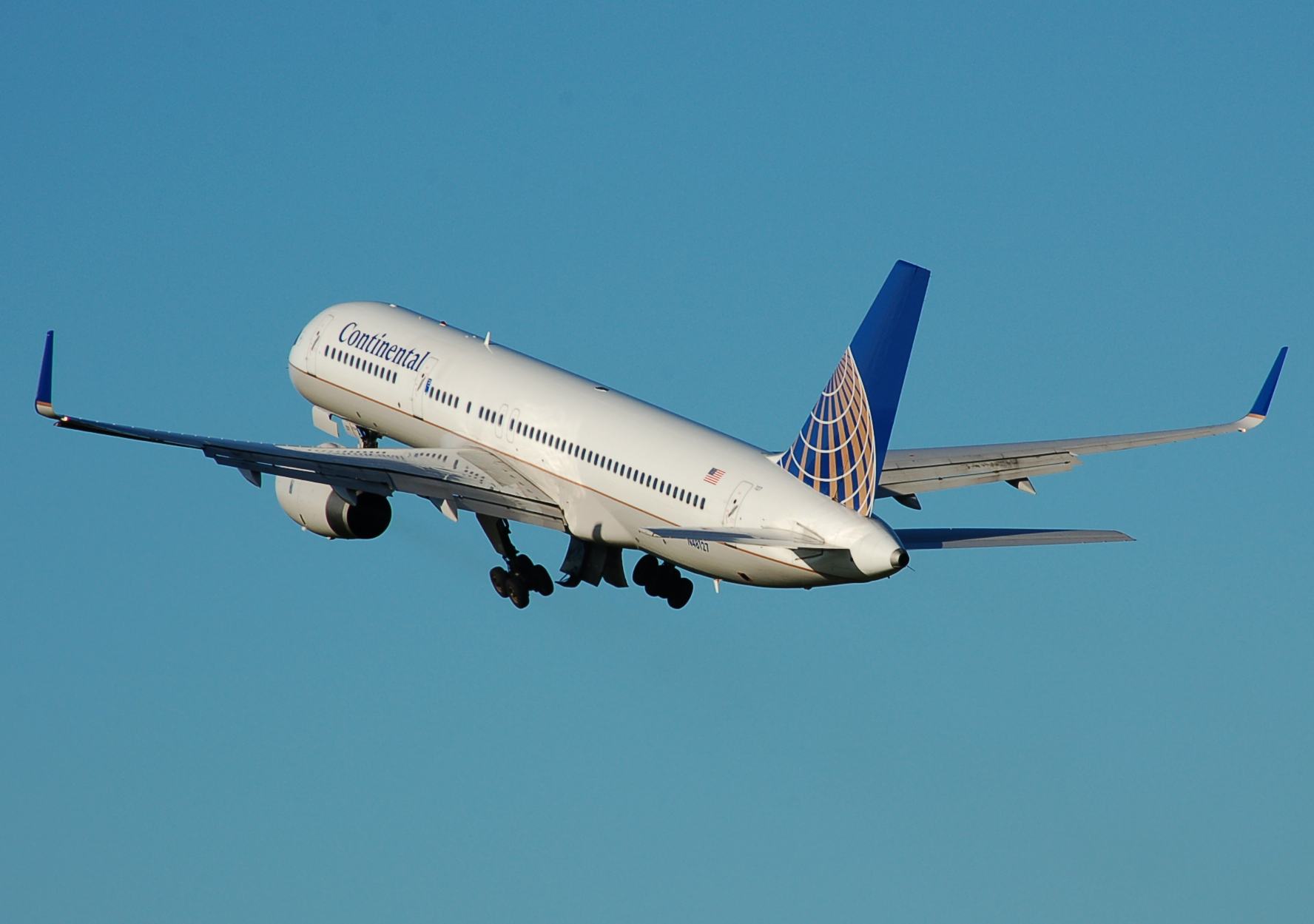 Continental Airlines Boeing 757-200 (registration N48127) takes off from Bristol International Airport, Bristol, England, bound for Newark (New Jersey), USA.